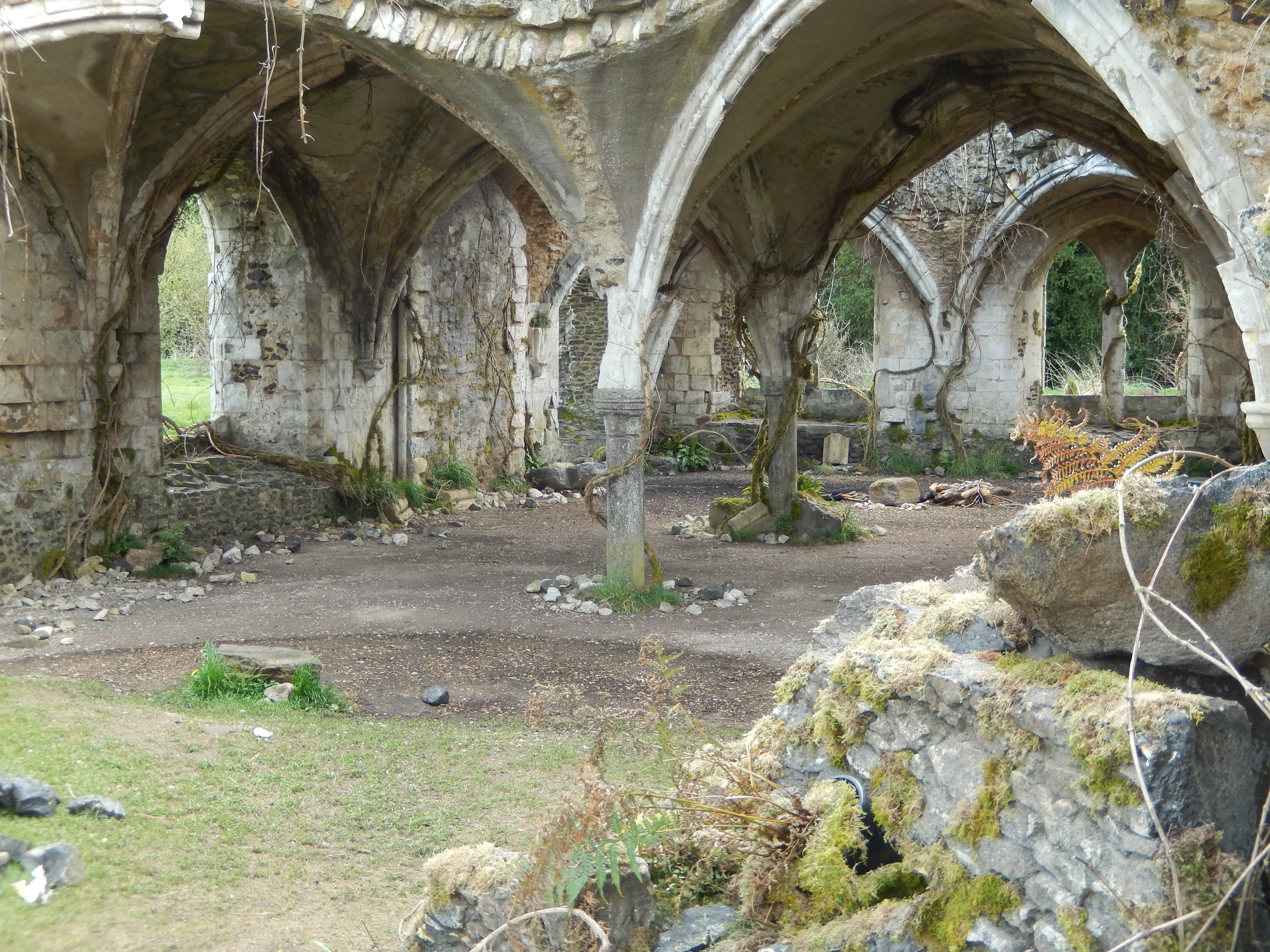 The lay brothers' refectory at Waverley Abbey, Surrey, England, after completion of filming for the movie Huntsman (prequel to Snow White and the Huntsman). The rubble in the foreground and around the pillars, as well as the vines on the walls and pillars are all film props. The fireplace between the window arches on the left has also been covered over for the filming.